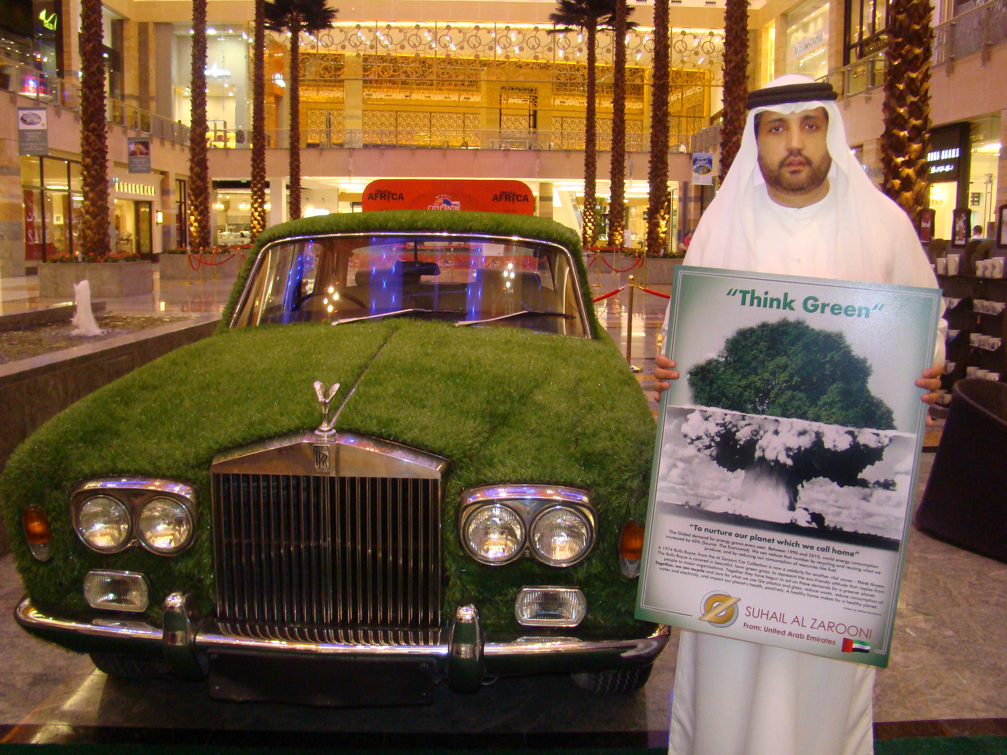 Suhail Al Zarooni’s message to all Emiratis is to use our minds which strive to develop youngsters who should be prepared for the future, ready for the challenging needs of the Emirates and trend for a life of ongoing learning & professional success.